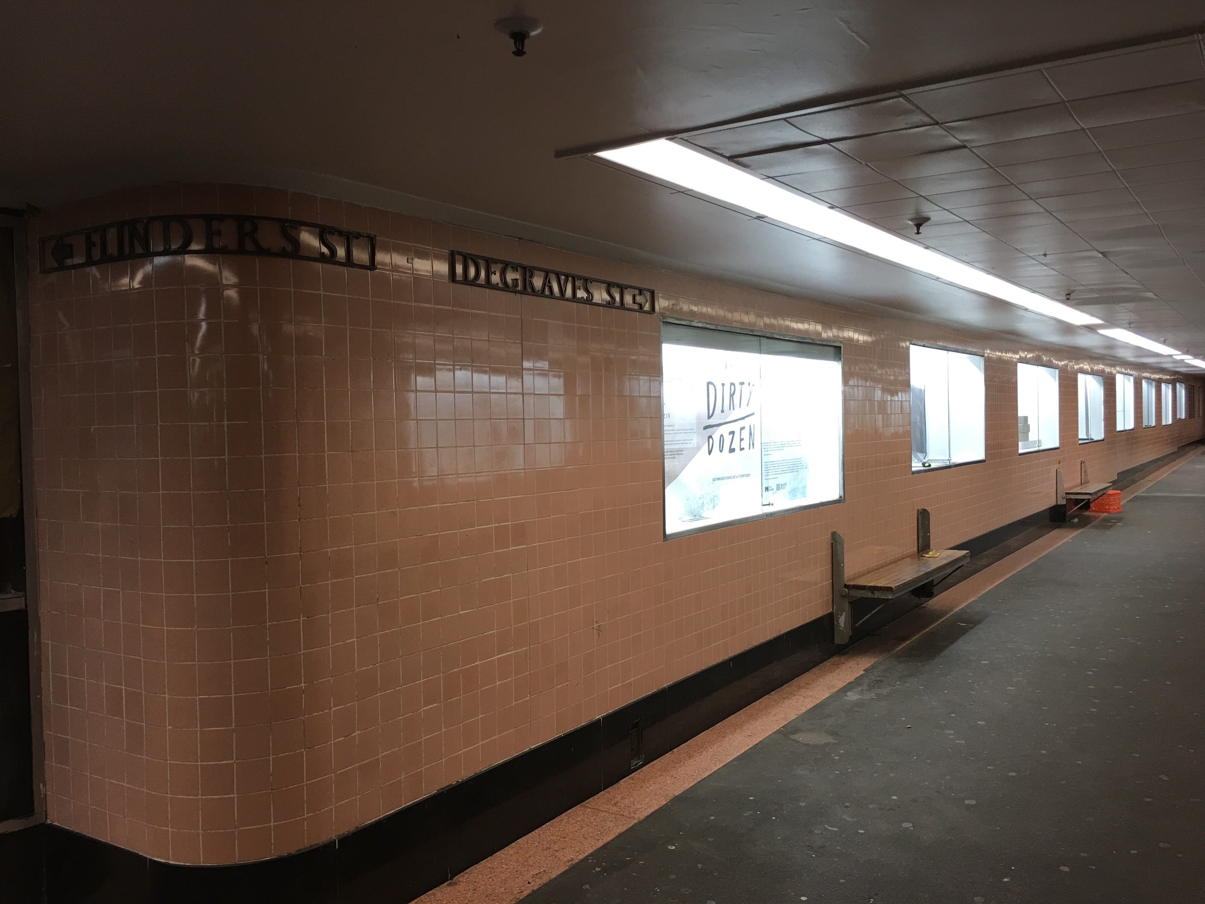 Campbell Arcade Degraves Underpass Degraves Street Flinders Street Station Flinders Street Melbourne Australia